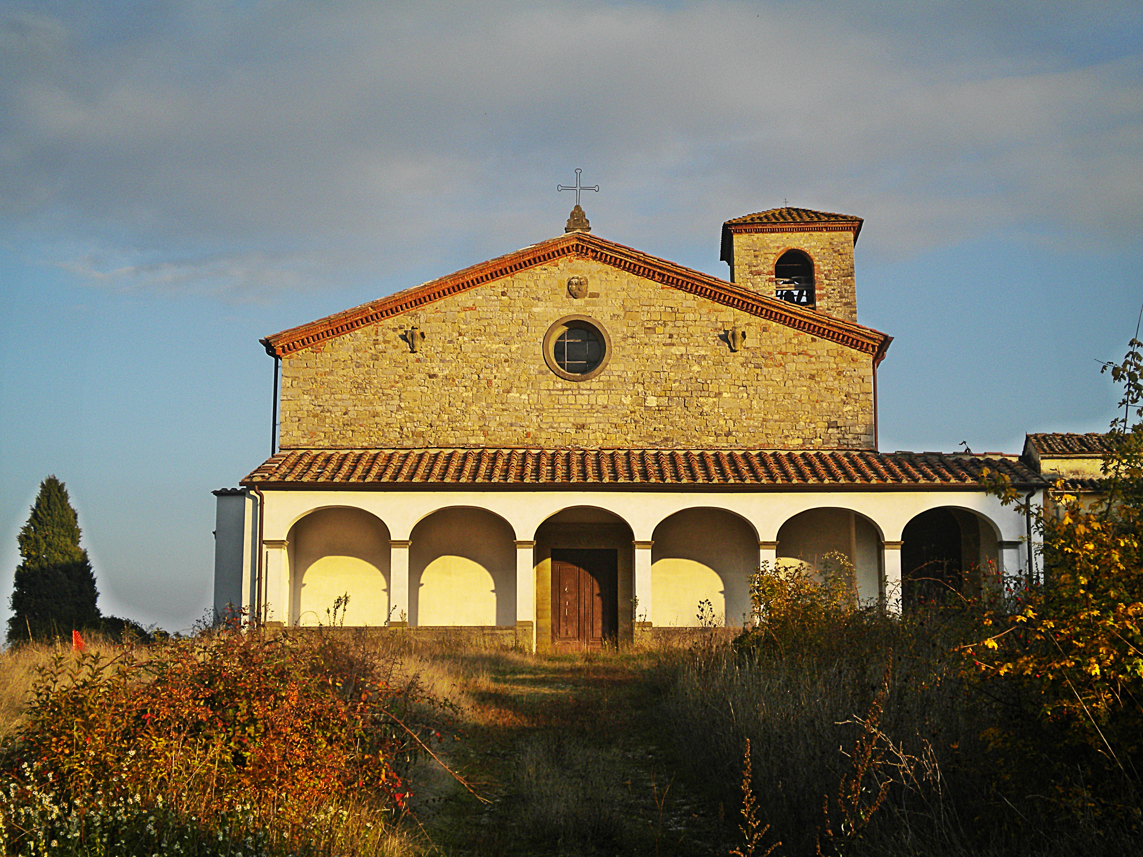 facade